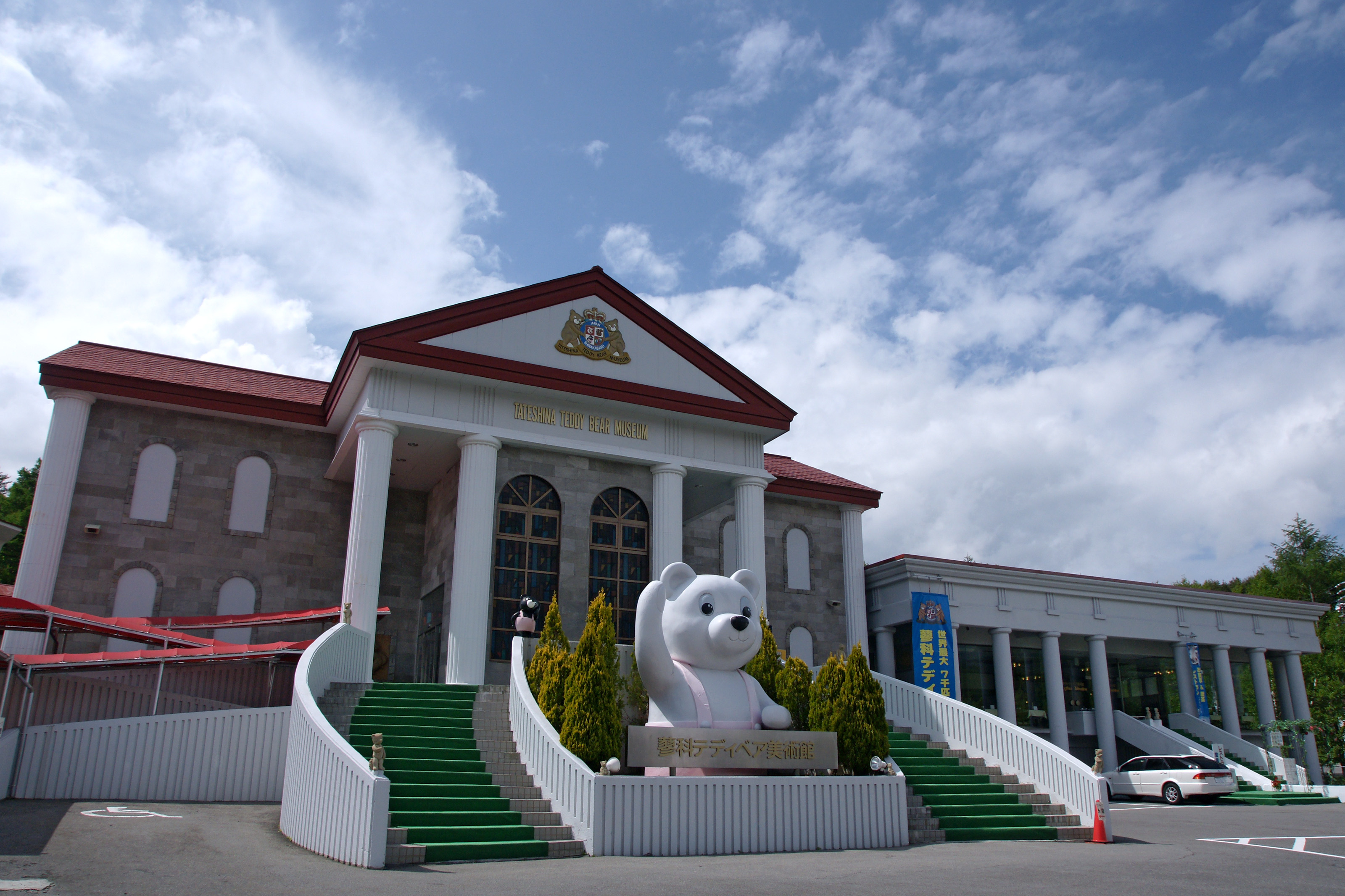 Tateshina Teddy Bear Museum, Lake Shirakaba, Tateshina, Nagano prefecture, Japan